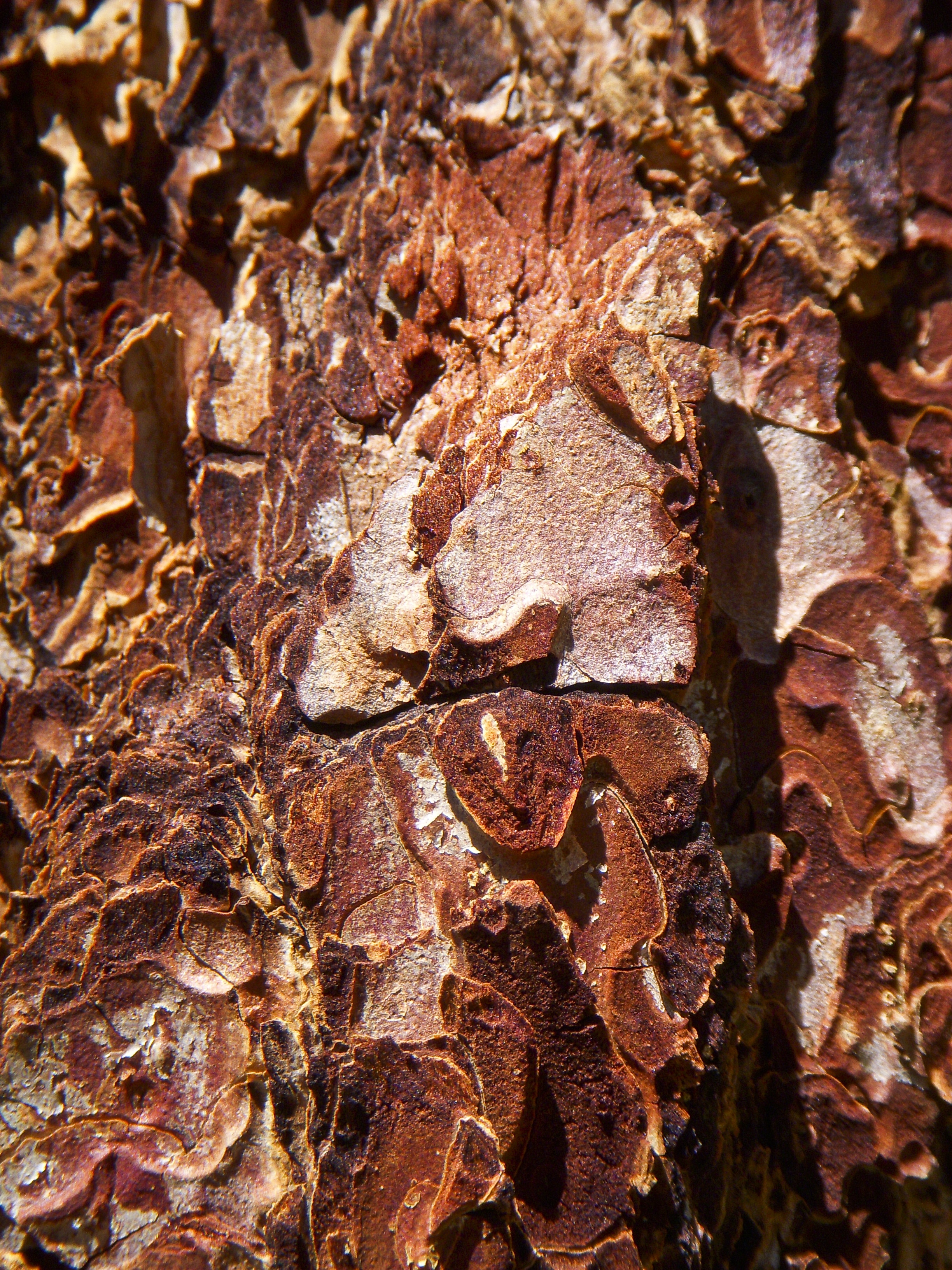 Pinus jeffreyi ( Jeffrey Pine) bark — on tree growing on Mount Pinos. Located in the southeastern Los Padres National Forest, on the border of Kern & Ventura Counties, in central-southern California.